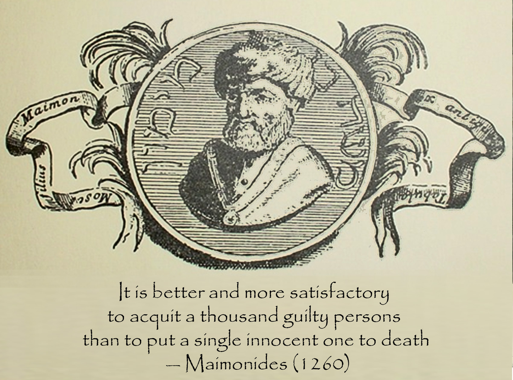 Graphic of Maimonides, with his statement of Blackstone's Ratio